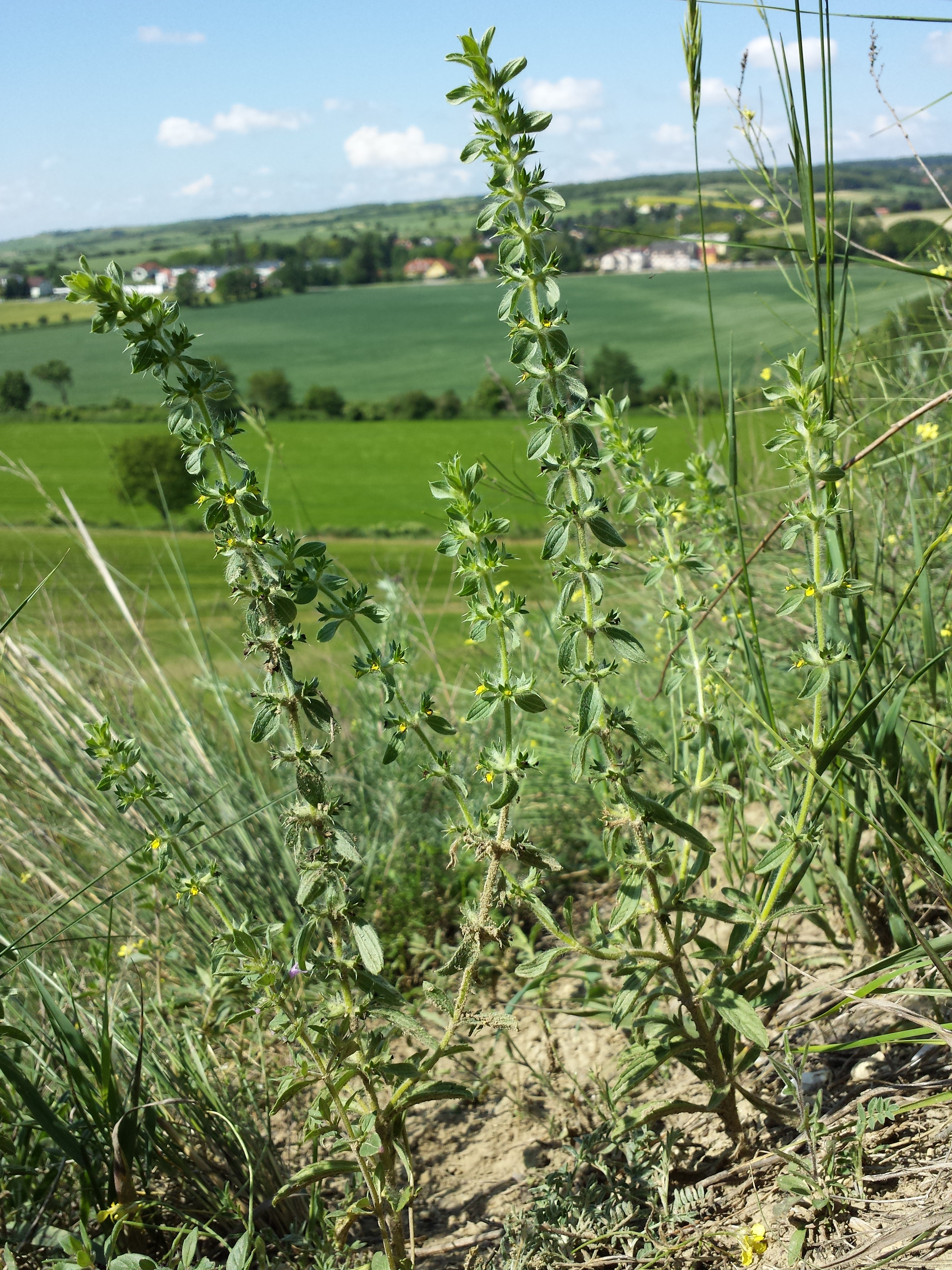 Habitus Taxon: Sideritis montana (sensu Fischer et al. EfÖLS 2008 ISBN 978-3-85474-187-9) Location: Haulesbergen, Ulrichskirchen-Schleinbach, district Mistelbach, Lower Austria - ca. 200 m a.s.l. Habitat: dry grassland over Loess